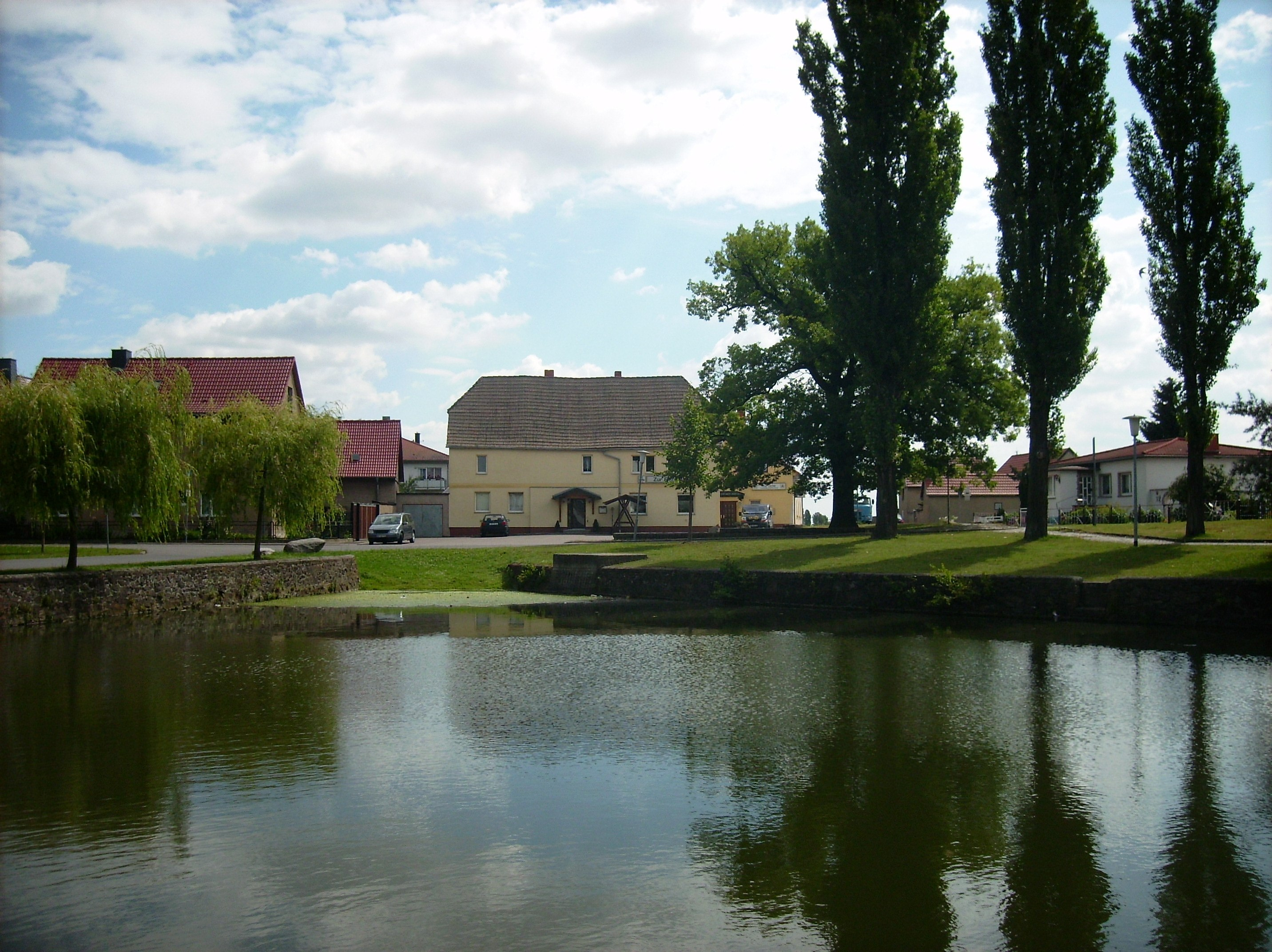 Pond and The Oak Inn in Queis (Landsberg, district of Saalekreis, Saxony-Anhalt)